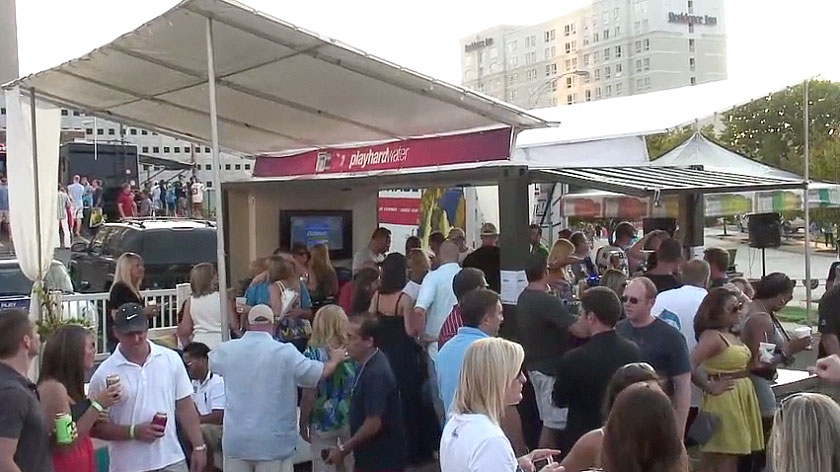 parties Containers Containerization portable